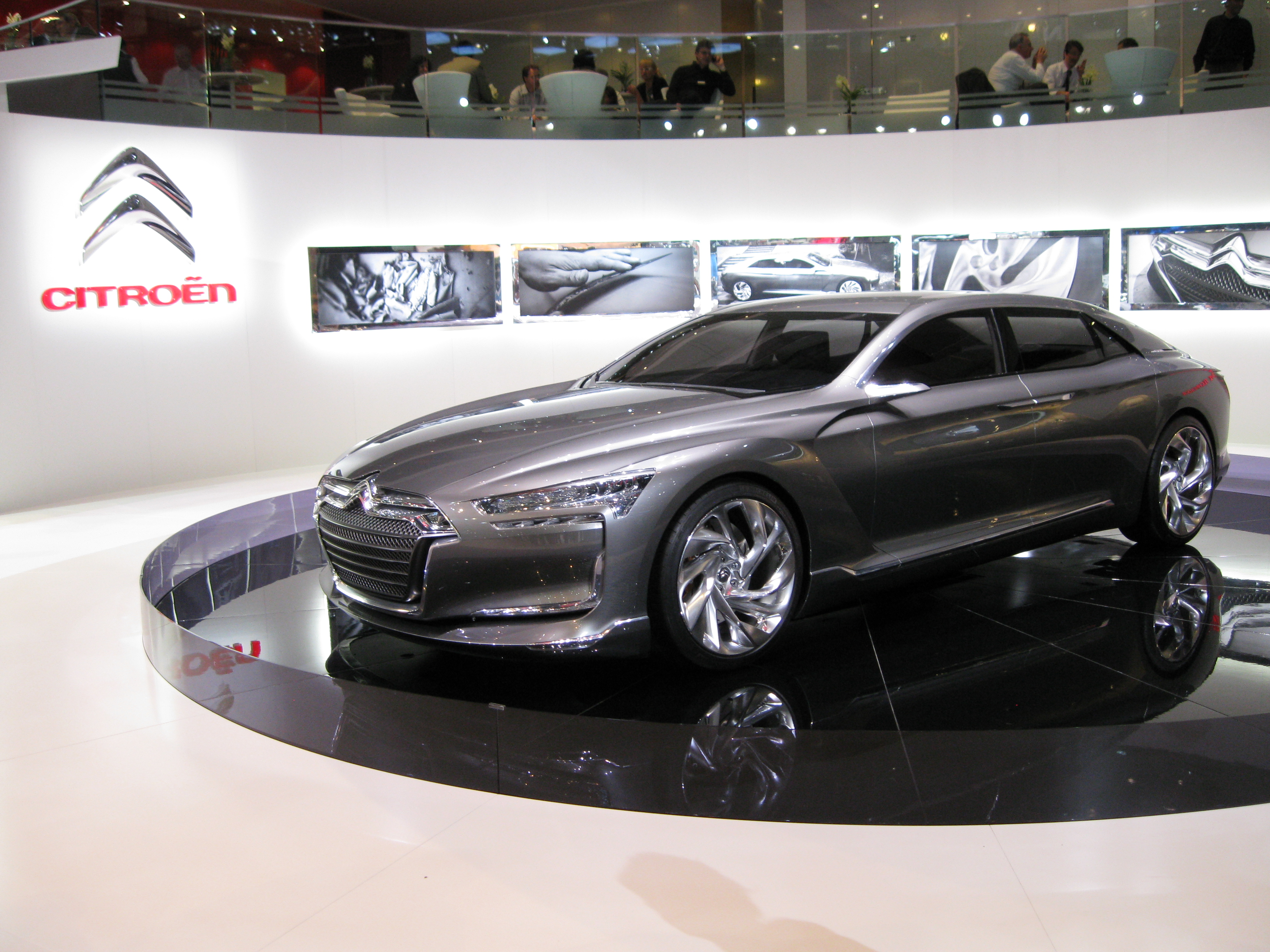 Geneva Motor Show 2011